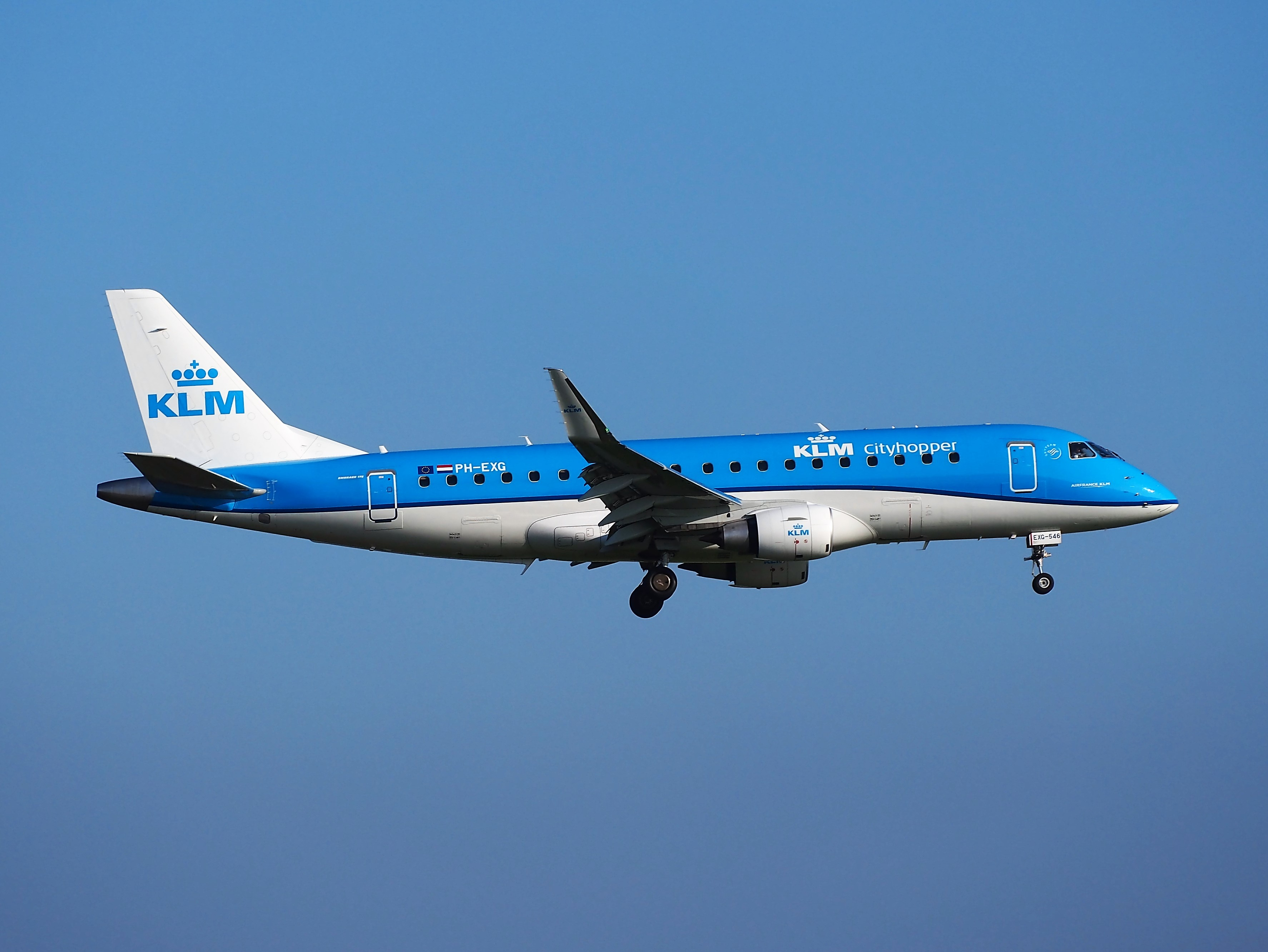 Photographed at Schiphol, The Netherlands.